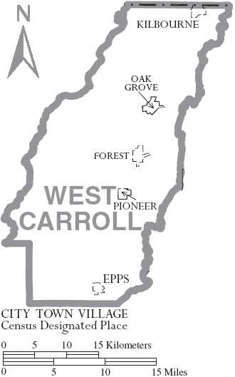 Map of West Carroll Parish, Louisiana, United States with municipal boundaries